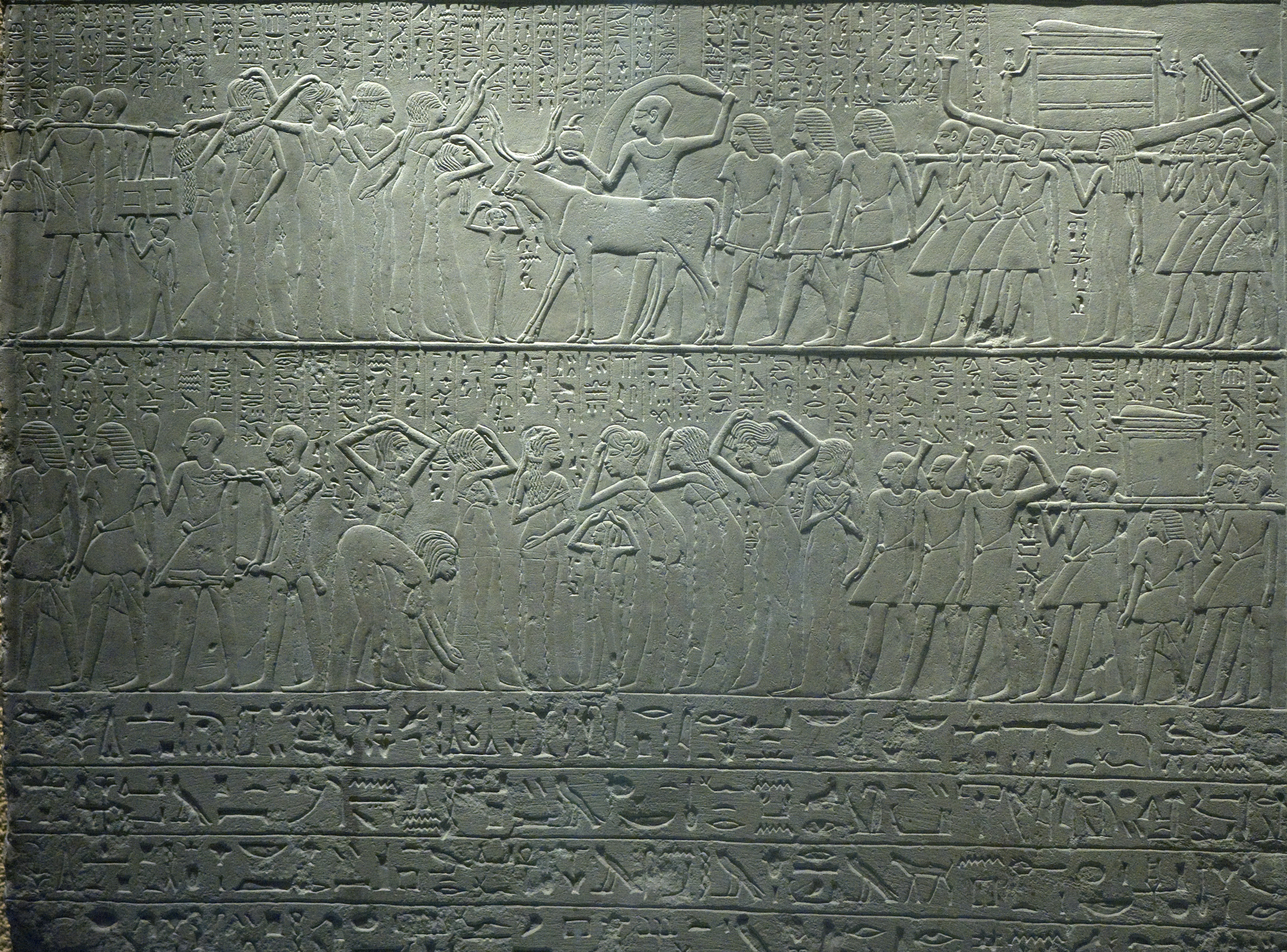 Tomb of Merymery relief funeral procession (RMO Leiden, Egypt 18th dynasty.)